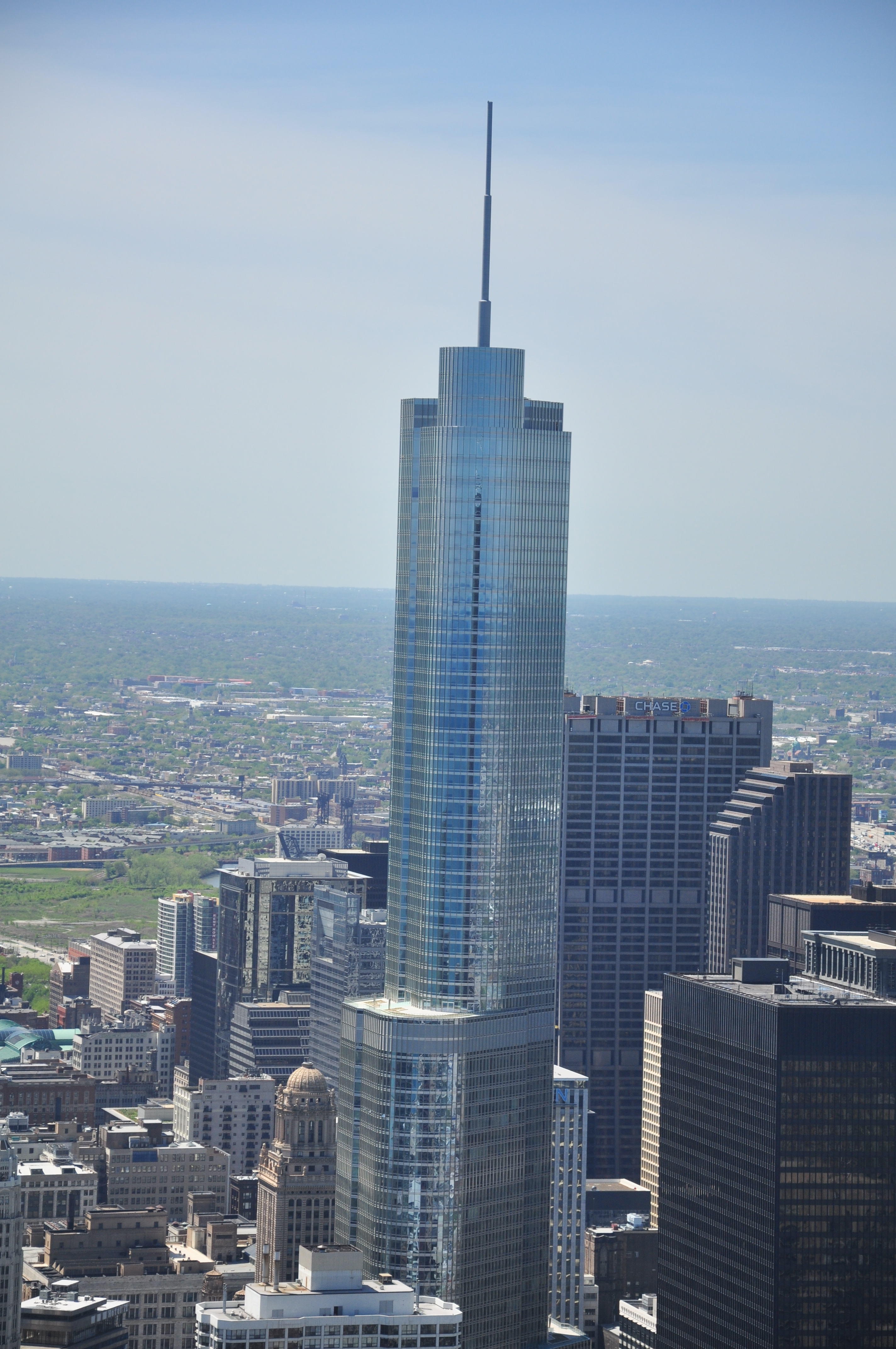 From the Hancock Center observation deck.